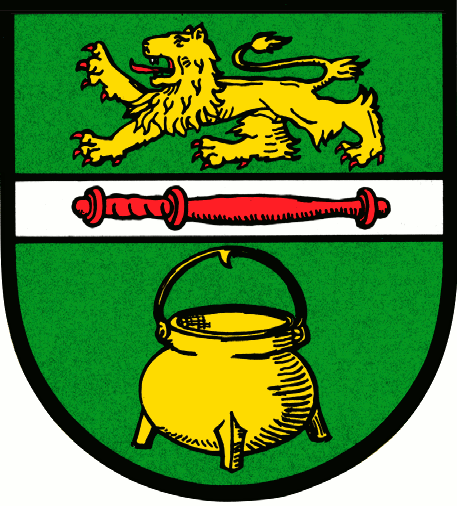 Coat of Arms of Samtgemeinde Wathlingen